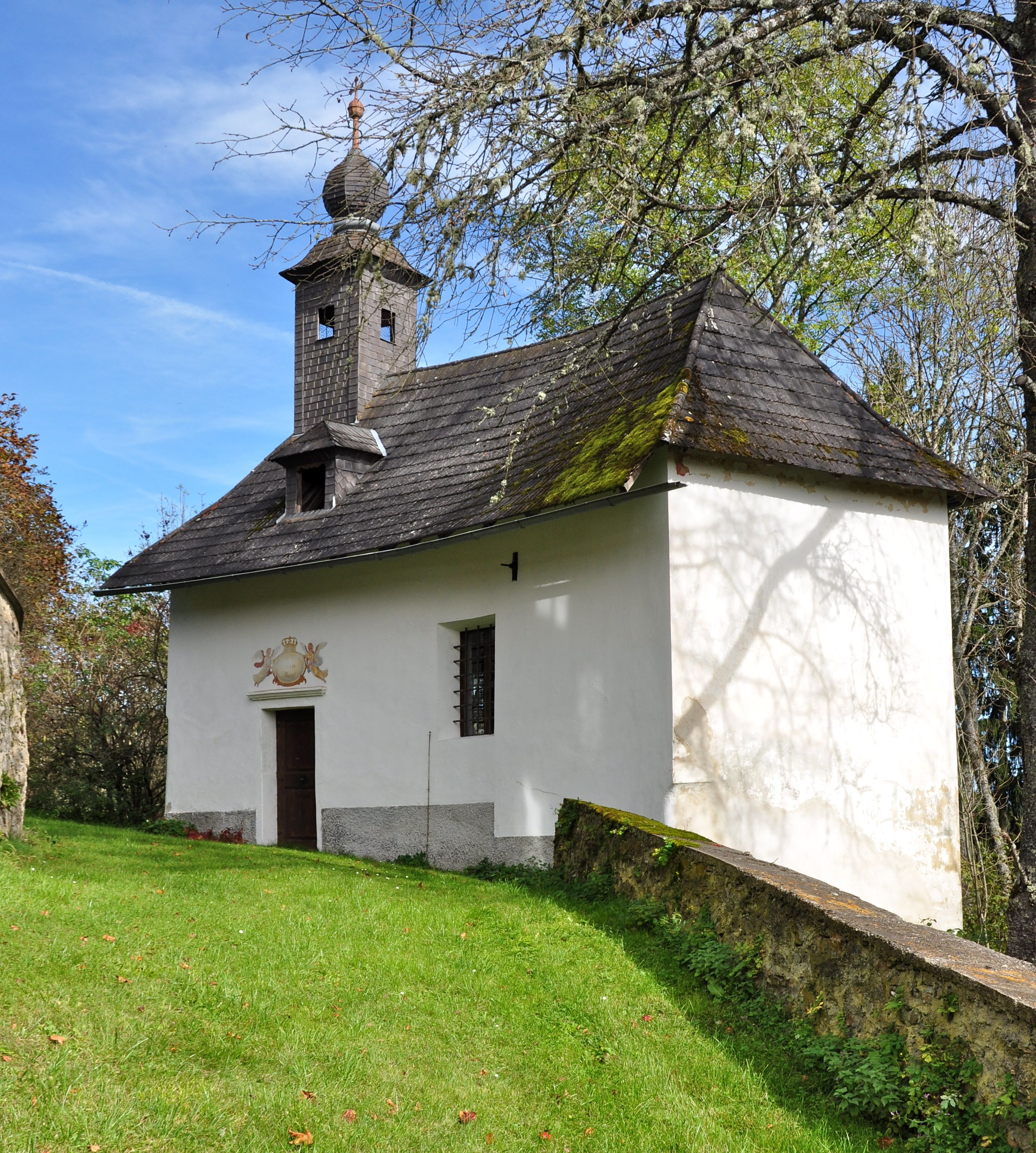 Chapel Saint John Nepomuk, east of the castle Rastenfeld at Rastenfeld #1, municipality Mölbling, district Sankt Veit, Carinthia, Austria, EU